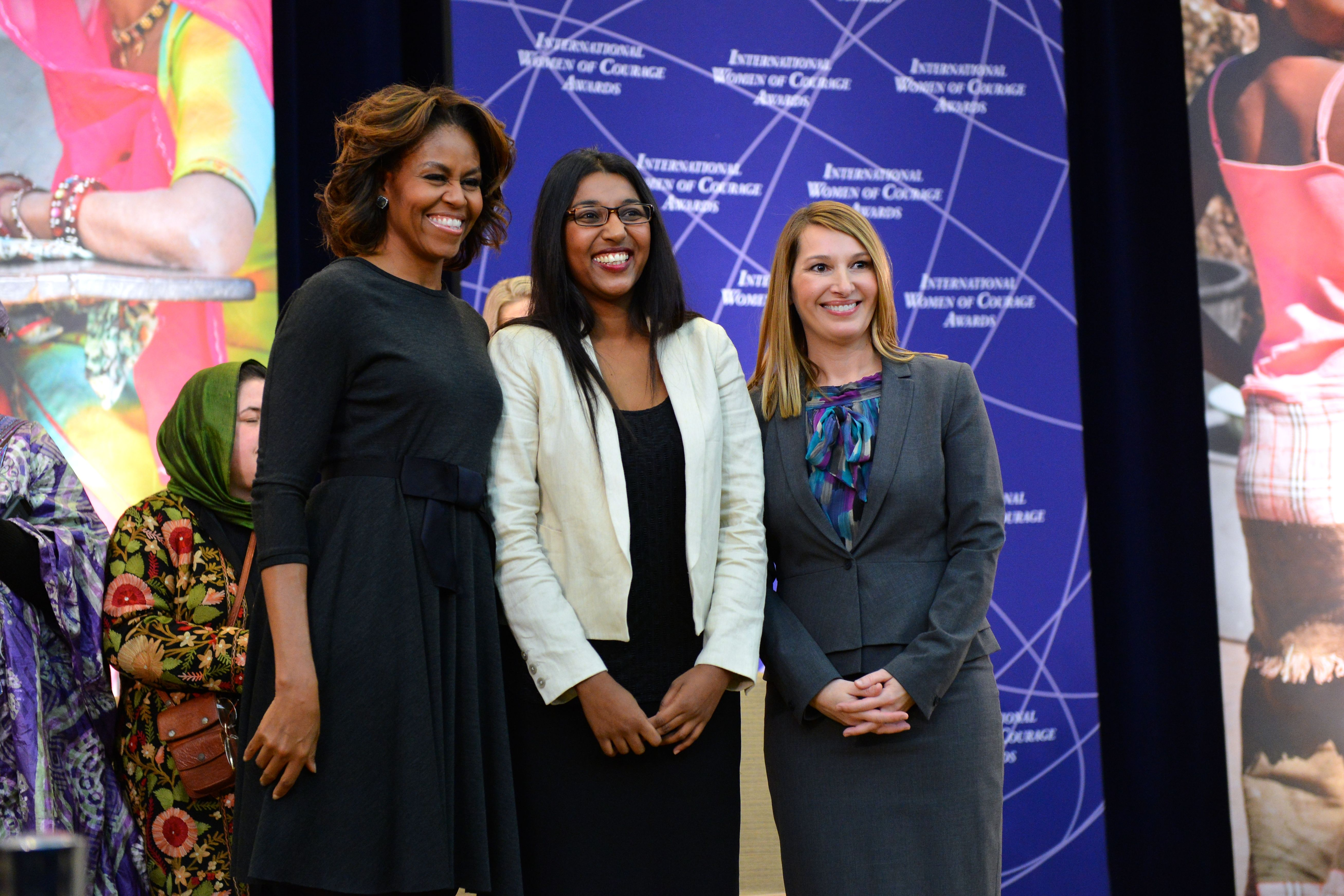 First Lady Michelle Obama and Deputy Secretary Heather Higginbottom pose for a photo with 2014 Secretary of State’s International Women of Courage Awardee Roshika Deo, a Feminist and Political Activist for the Be the Change Campaign in Fiji, at the U.S. Department of State in Washington, D.C., on 4 March 2014. [State Department photo/ Public Domain]